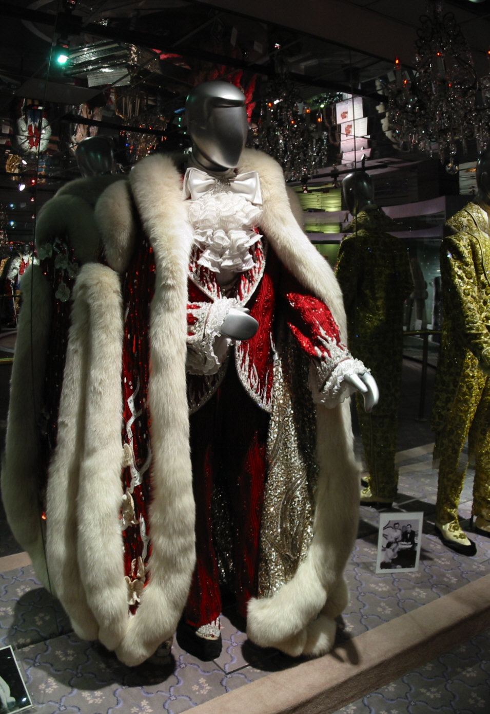 1981 Christmas-themed costume worn by Liberace. Vertical mosaic photo stitched together from three snapshots.